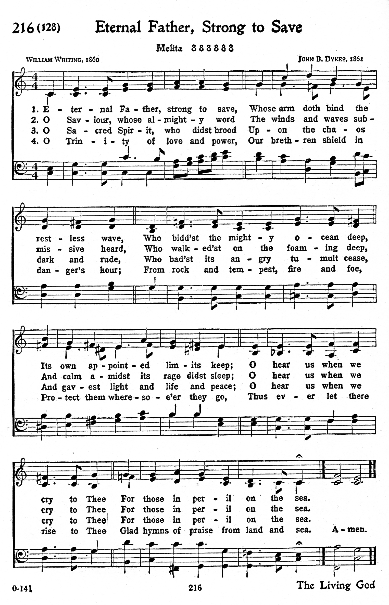 "Eternal Father, Strong to Save" by William Whiting (Words, 1860) and John B. Dykes (music, 1861).